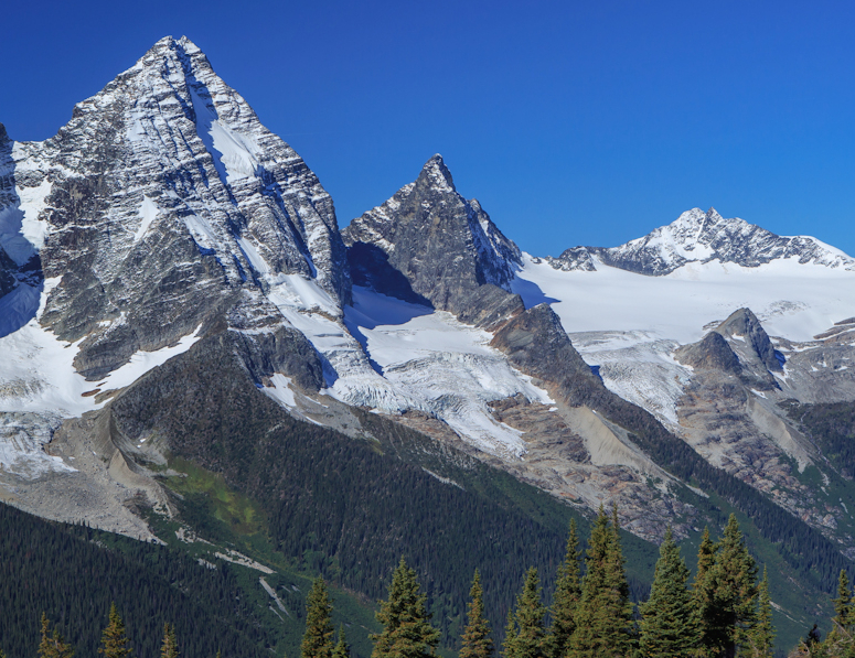 Mount Sir Donald, Uto Peak, Avalanche Mountain from Purcells Lodge area